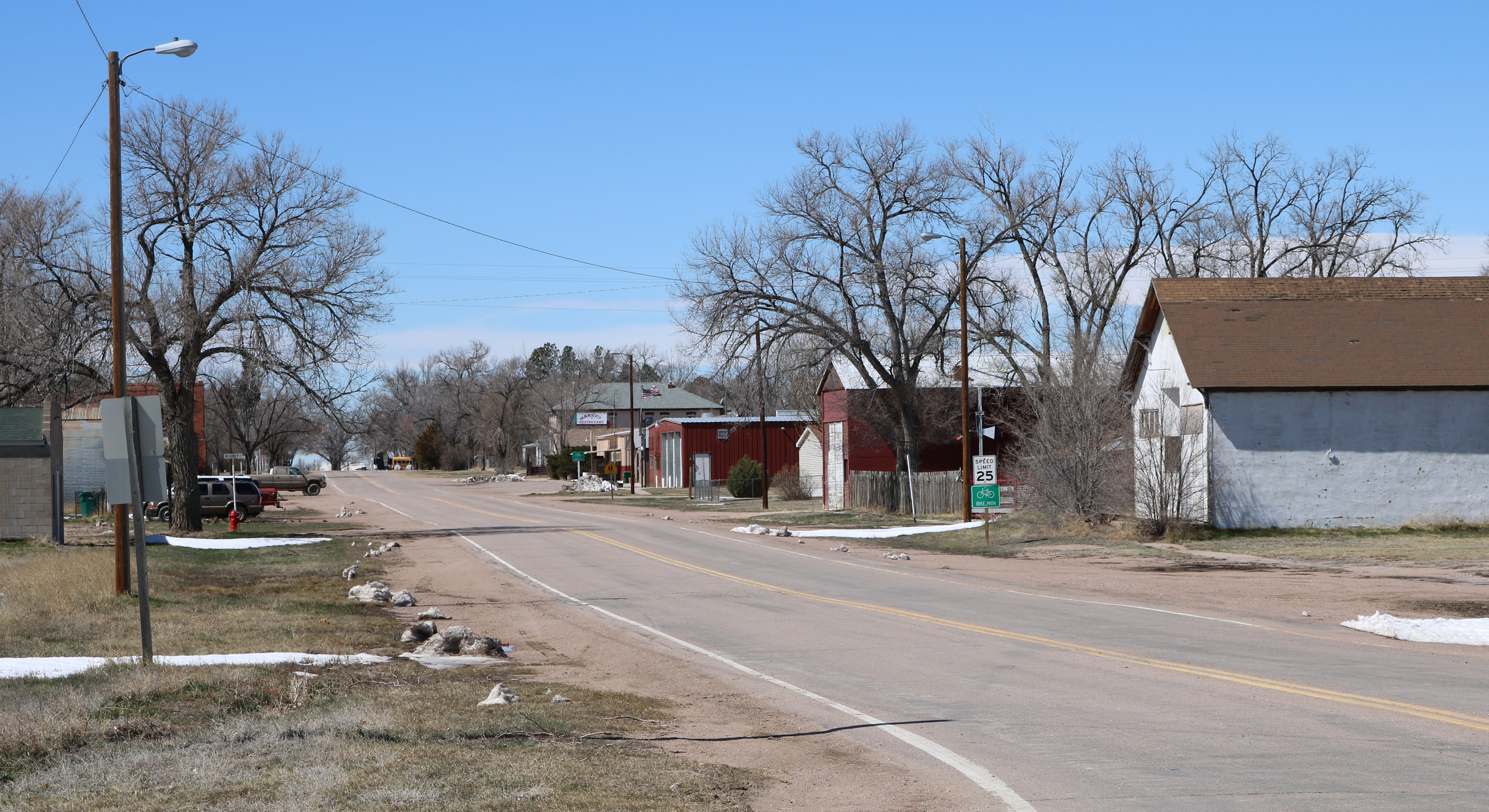 A view down Weld County Road 120 3/4 in Grover, Colorado.